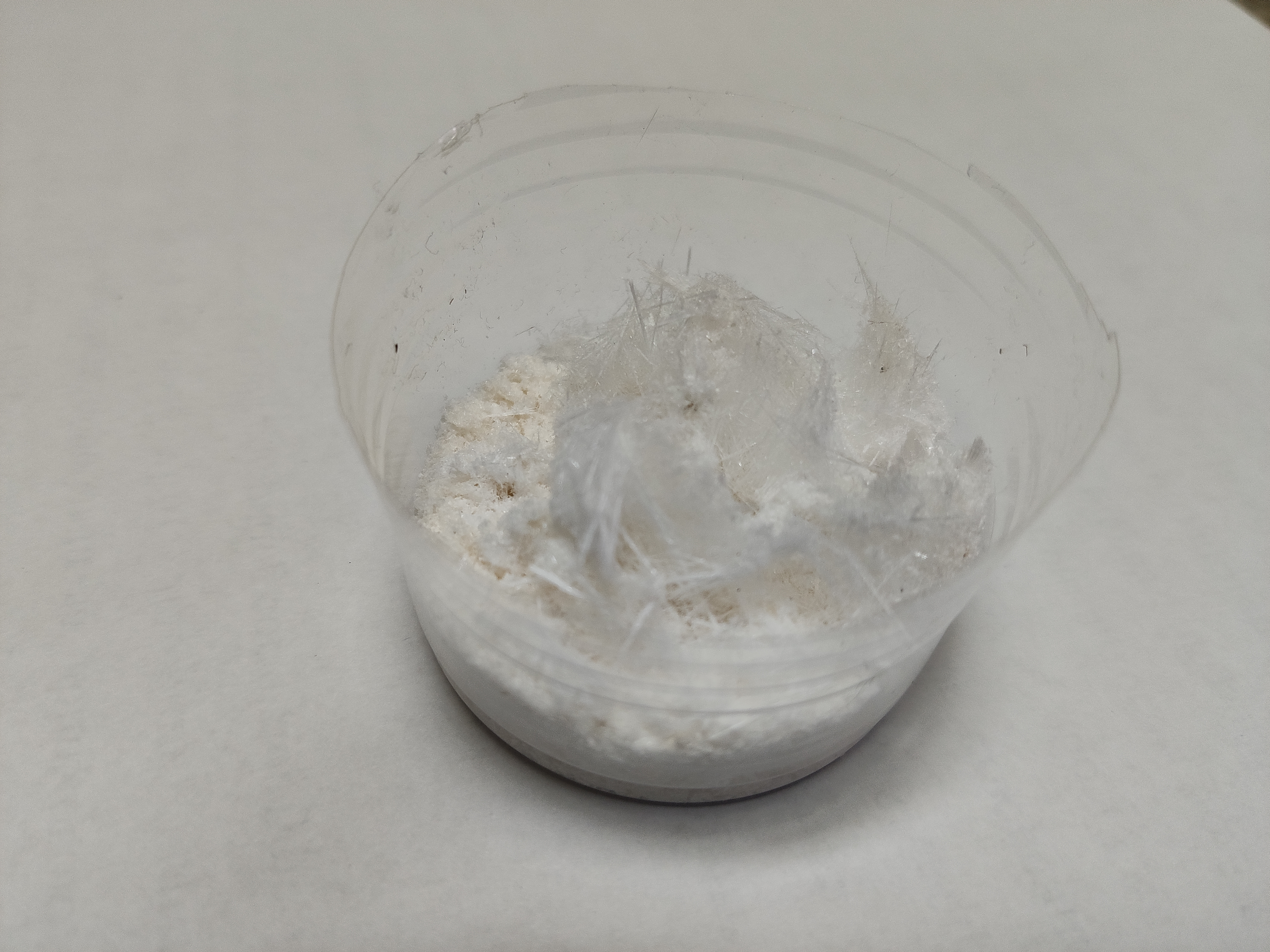 2,4,6-Trichlorophenol crystals in plastic cup. Dried in desiccator over sulfuric acid under vacuum.